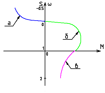 The mechanical characteristics of asynchronous machine